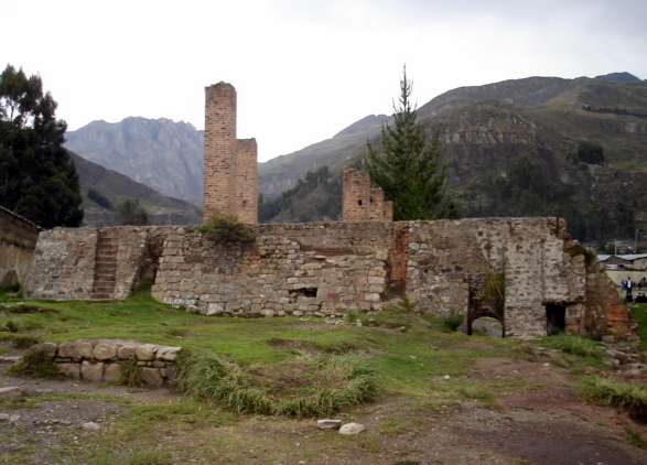 Older Mine Plant